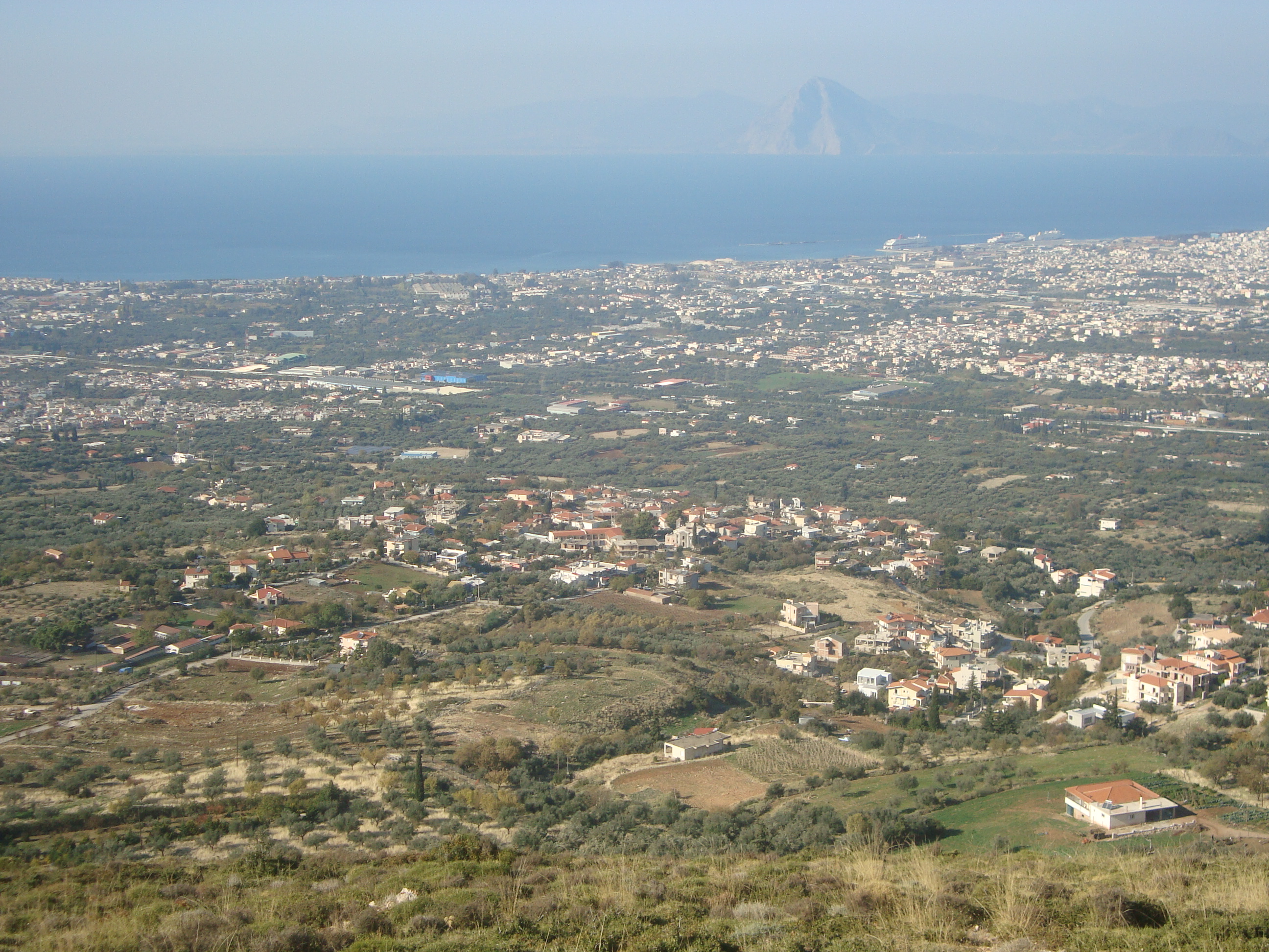 Krini village